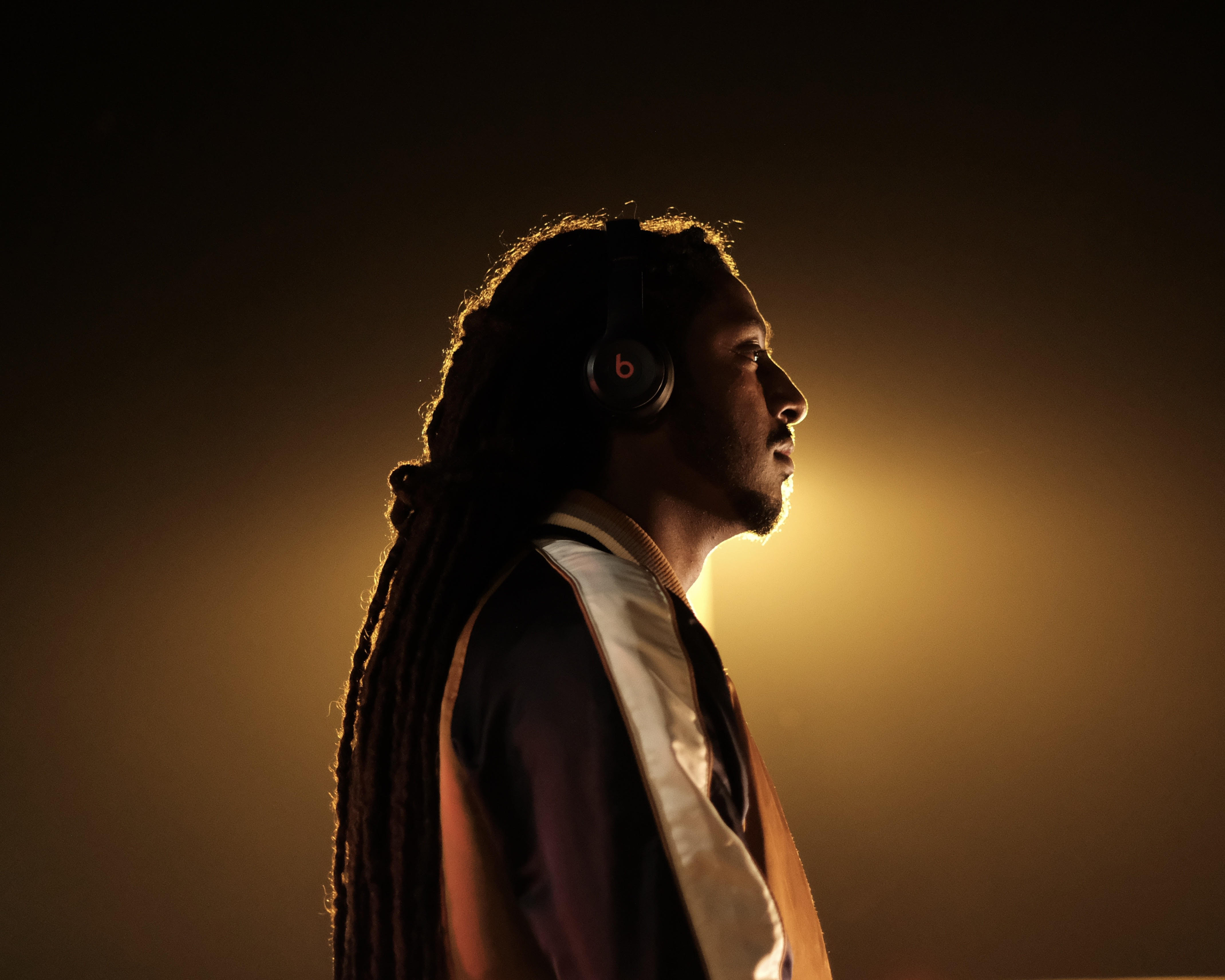 ROPHNAN posing his trademark Rophside